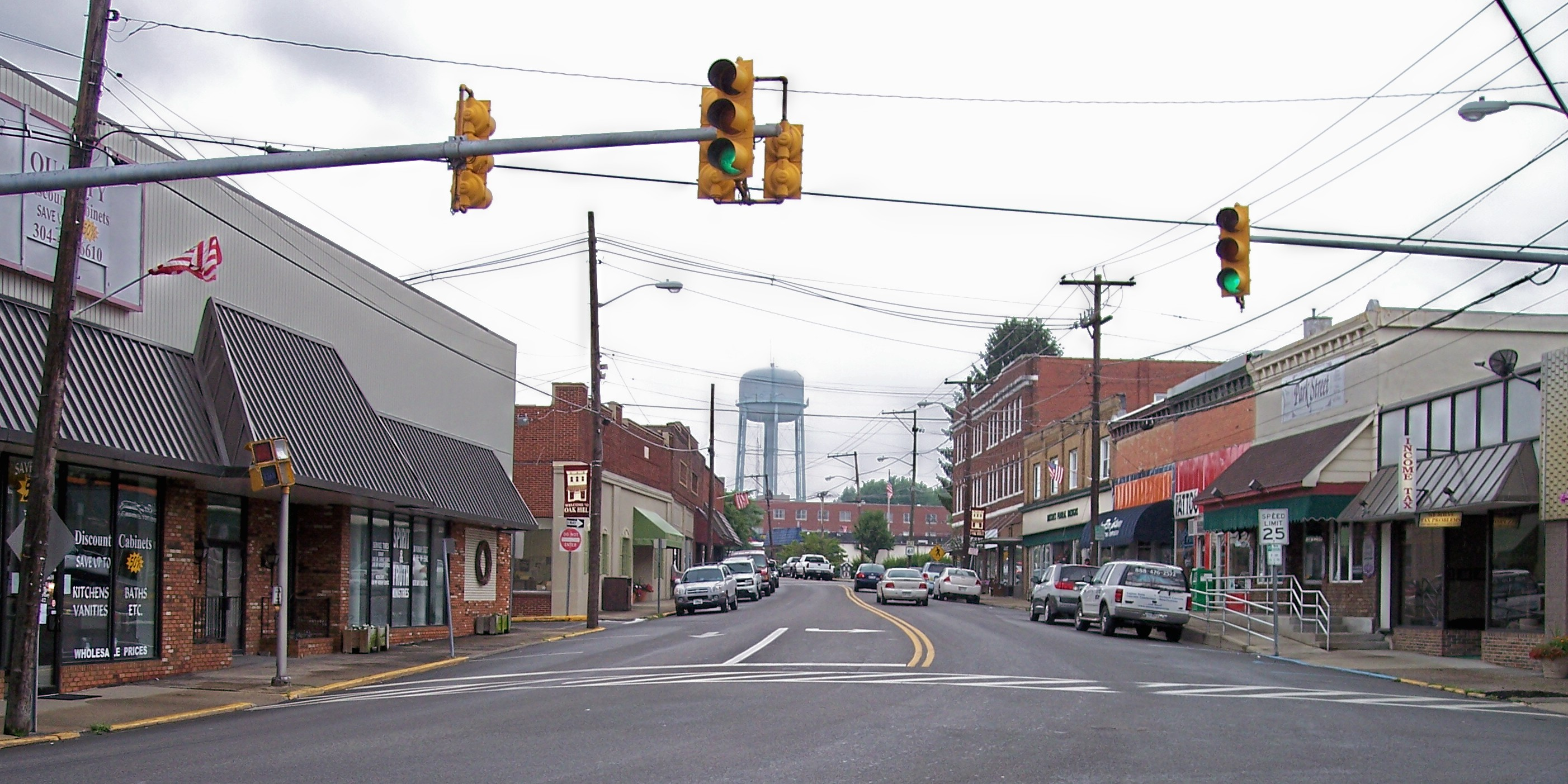 Main Street (West Virginia Routes 16 and 61) in downtown Oak Hill, West Virginia